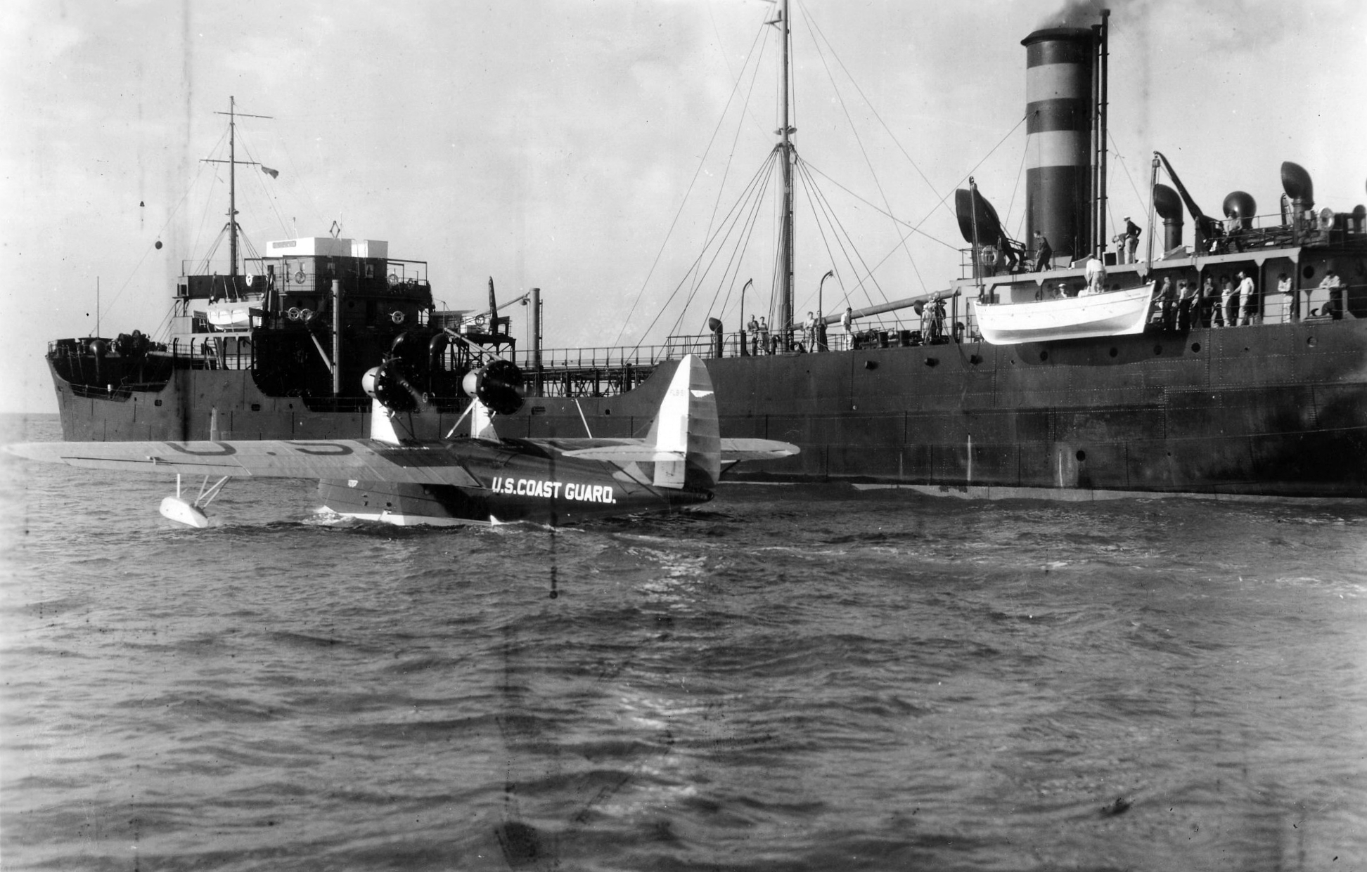 The U.S. Coast Guard General Aviation PJ-2 Antares (serial CG-51, later V-116) leaving the tanker SS Samuel Q. Brown. In this instance two merchant crewmen sustained serious burns and were evacuated 80 km off the Delaware Capes in early 1933. The transfer was made by small boat using a specially designed stretcher which was placed aboard the aircraft using the forward hatch. The transfer in this case was made in favourable weather conditions, which was often not the case. This PJ-2 was commissioned on 16 April 1932 as a PJ-1. The aircraft was initially stationed at Air Station Cape May, New Jersey and later transferred to Air Station Biloxi, Mississippi. Its engines were modified from a pusher-type to tractor-type by the Coast Guard in 1933 and it was redesignated as a PJ-2.